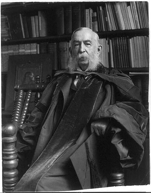 Three-quarter length photographic portrait of Daniel Coit Gilman, native of Norwich, Connecticut, Yale College graduate, and later university president